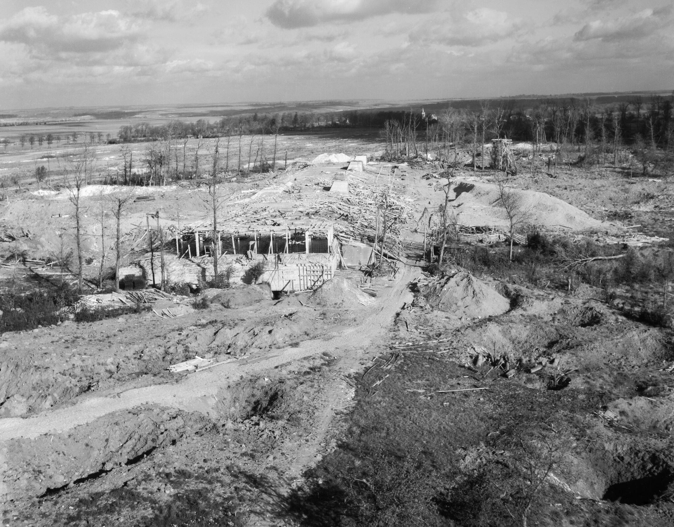 Royal Air Force Bomber Command, 1942-1945. Low-level oblique aerial photograph showing the heavily-bombed flying-bomb assembly and launch bunker at Siracourt, France, the target for a number of attacks by Bomber Command and the USAAF in June 1944. The final attack on the site was made by 17 Avro Lancasters of No. 617 Squadron RAF in the afternoon of 25 June 1944.